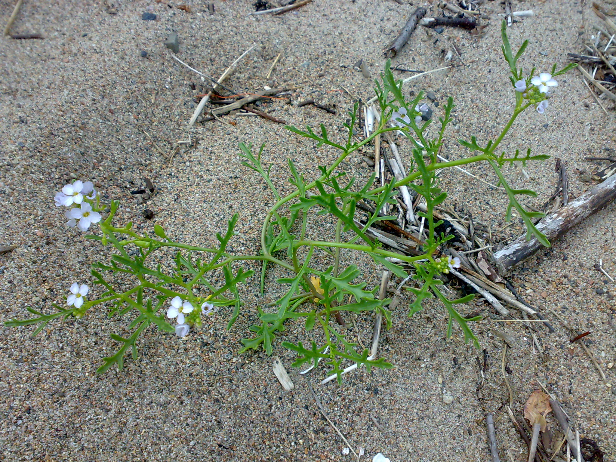 Cakile maritima ssp. integrifolia in Hurum, Norway